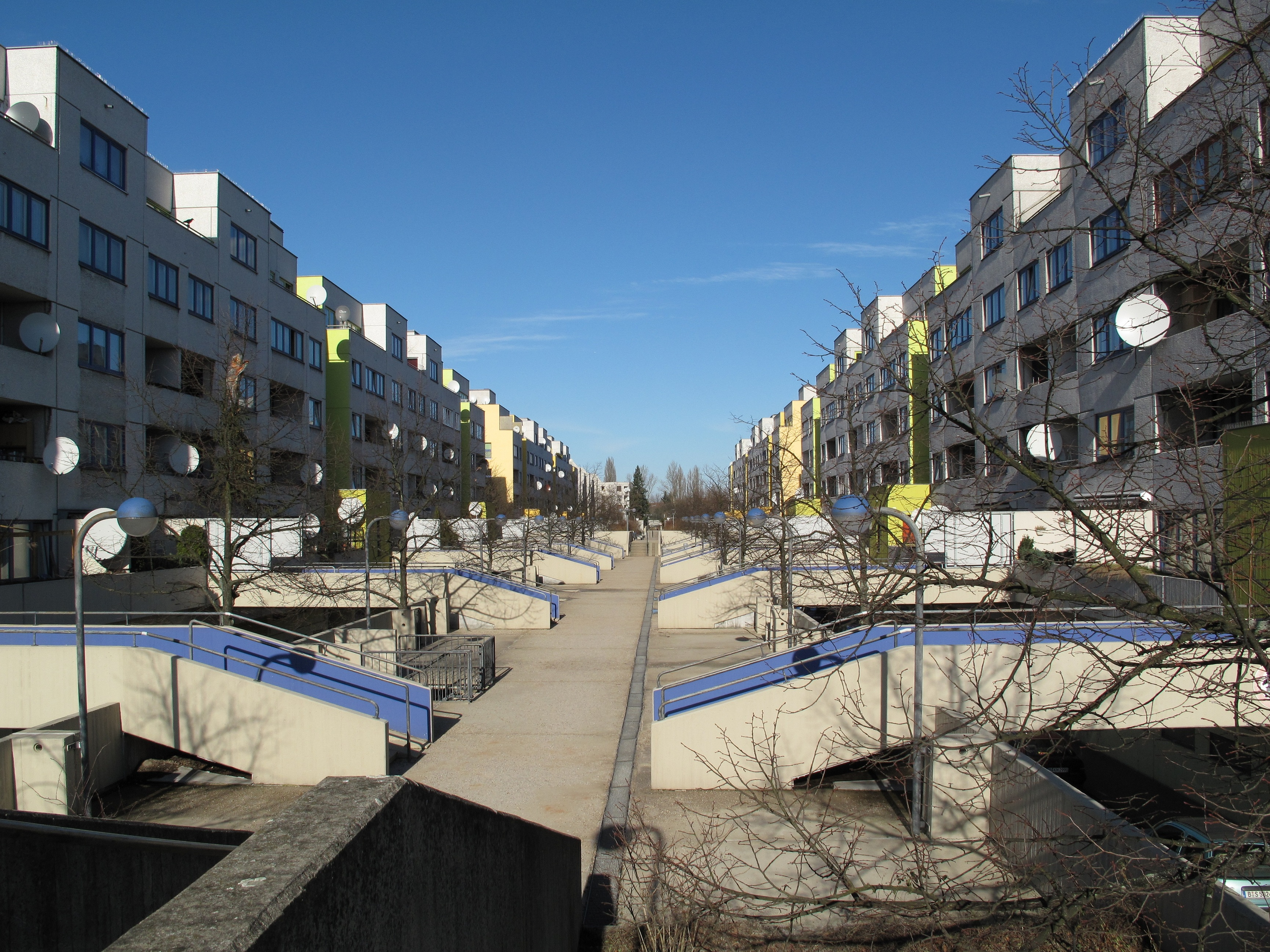 Southern deck of the Leo-Slezak-Straße in the High-Deck-Siedlung. The High-Deck-Siedlung is a housing estate in Berlin-Neukölln with ca. 6.000 inhabitants. The estate was built in the 1970s/1980s within the subsidized housing by the architects Rainer Oefelein and Bernhard Freund. Their innovative urban development concept counted on a structurally separation of pedestrians and traffic in opposition to Berlin's „urbanity through density“ conception (high-rise-estates) at that time. Above the streets spandrel-braced, green foot pathes (the High-Decks) connect the mainly five to six storied houses. Was the estate after it's construction regarded as the epitome of a tranquil and modern urban living at the green edge of West Berlin, it has evolved after the fall of Berlins Wall into a social hotspot. There was set up a neighbourhood management in 1999.